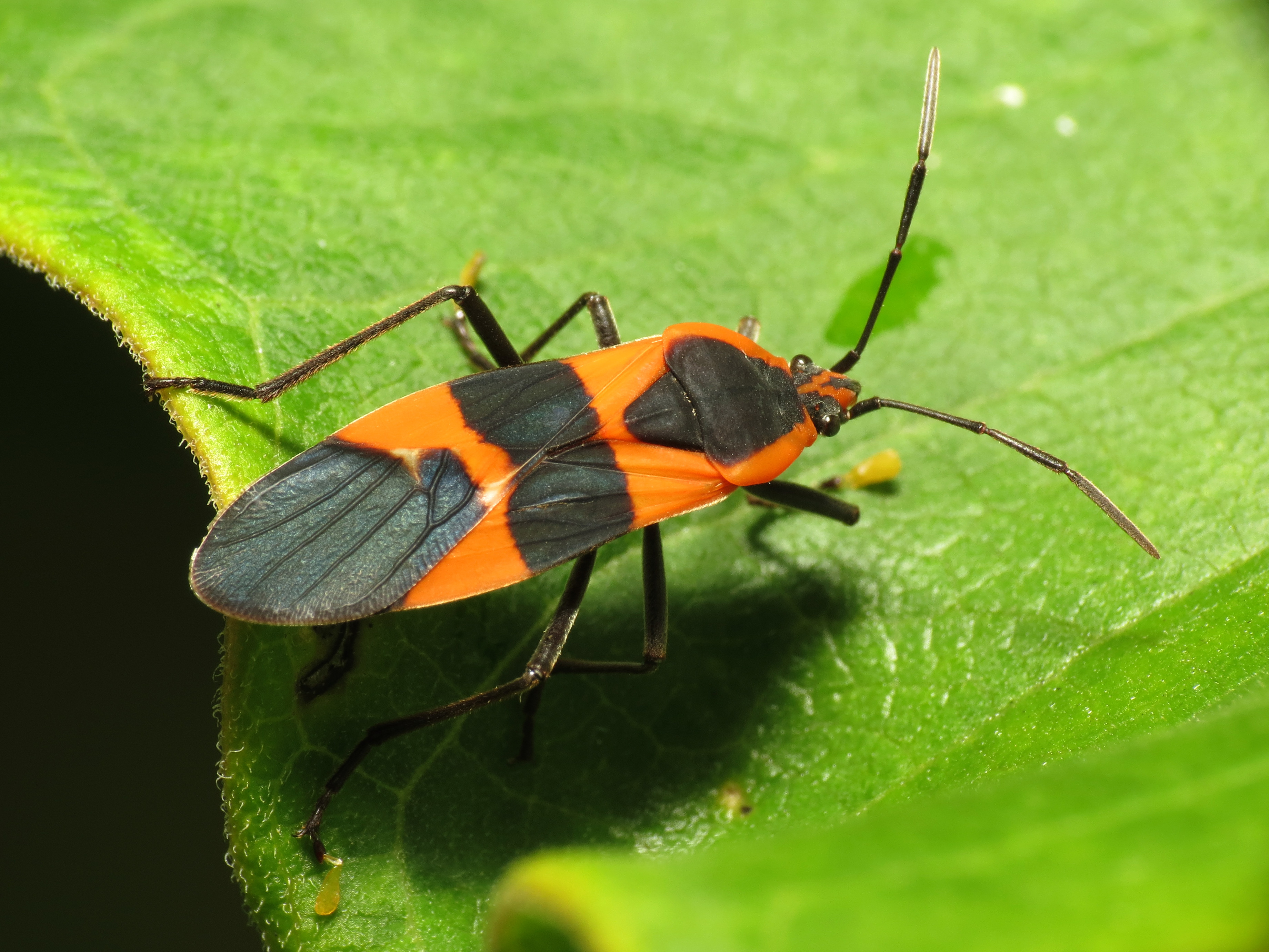 Oncopeltus fasciatus. Check out the milkweed pollinia on the legs. Military Road Meadow. Rock Creek Park, Washington, DC, USA.